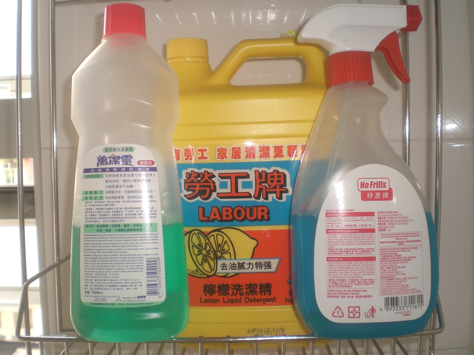 清潔劑